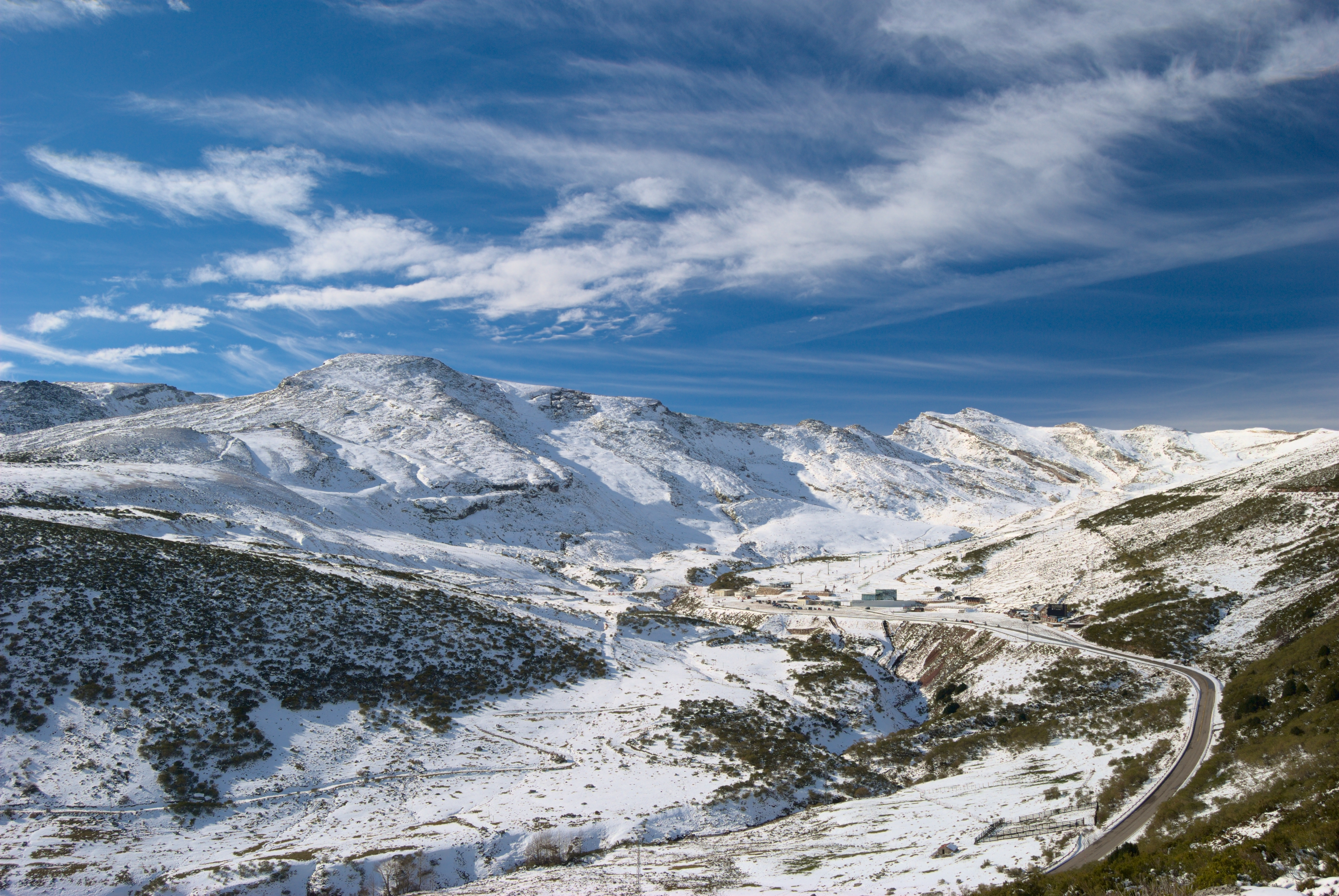 High valleys of Nansa, Saja and Alto Campoo, Cantabria, Spain. This is a photography of a Special Area of Conservation in Spain with the ID: ES1300021. Natura2000 entry, EEA entry